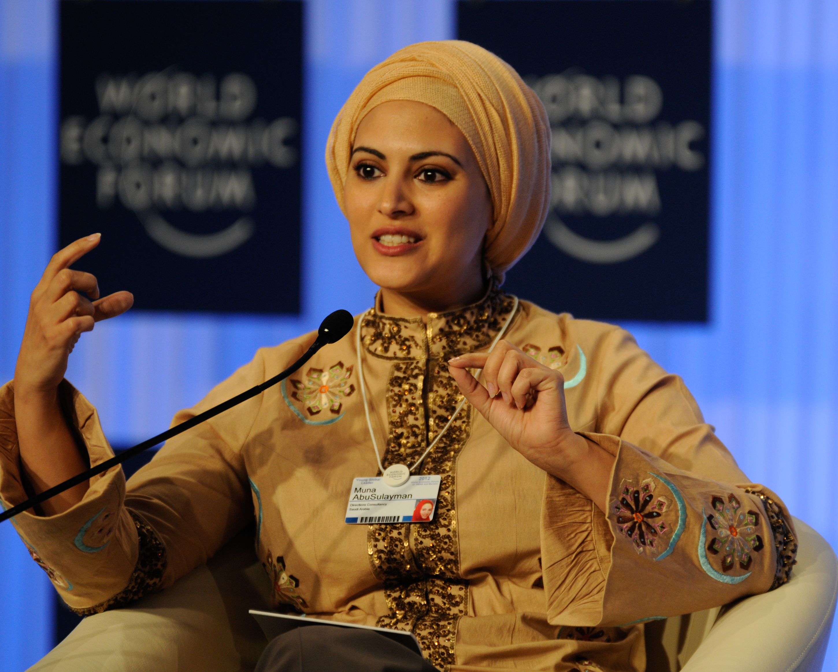 ISTANBUL, TURKEY, 6 June 2012 - Muna AbuSulayman, Partner, Directions Consultancy, Saudi Arabia; Young Global Leader, speaks during the closing plenary of the World Economic Forum on the Middle East, North Africa and Eurasia in Istanbul, 4-6 June 2012. Copyright World Economic Forum ( by Norbert Schiller